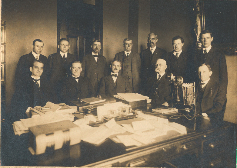 Tennessee Governor Thomas C. Rye (seated, second from the left) and staff.